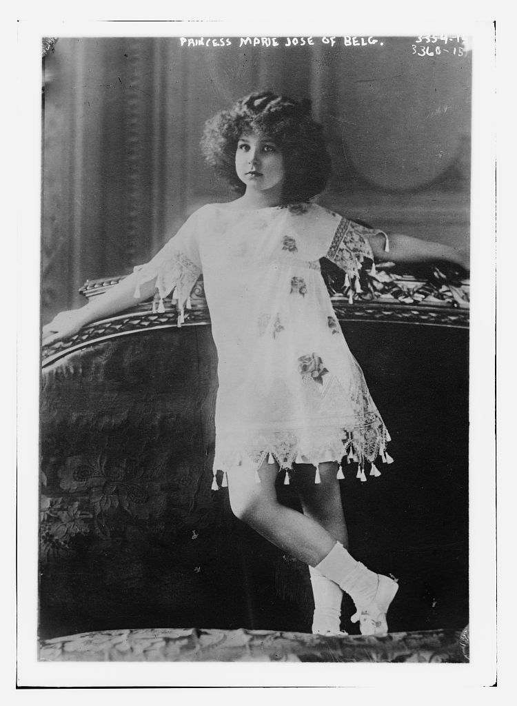 Bain News Service,, publisher. Princess Marie Jose of Belg. [i.e., Belgium] [between ca. 1910 and ca. 1915] 1 negative : glass ; 5 x 7 in. or smaller. Notes: Title from data provided by the Bain News Service on the negative. Forms part of: George Grantham Bain Collection (Library of Congress). Format: Glass negatives. Repository: Library of Congress, Prints and Photographs Division, Washington, D.C. 20540 USA, General information about the Bain Collection is available at Higher resolution image is available (Persistent URL): Call Number: LC-B2- 3360-15